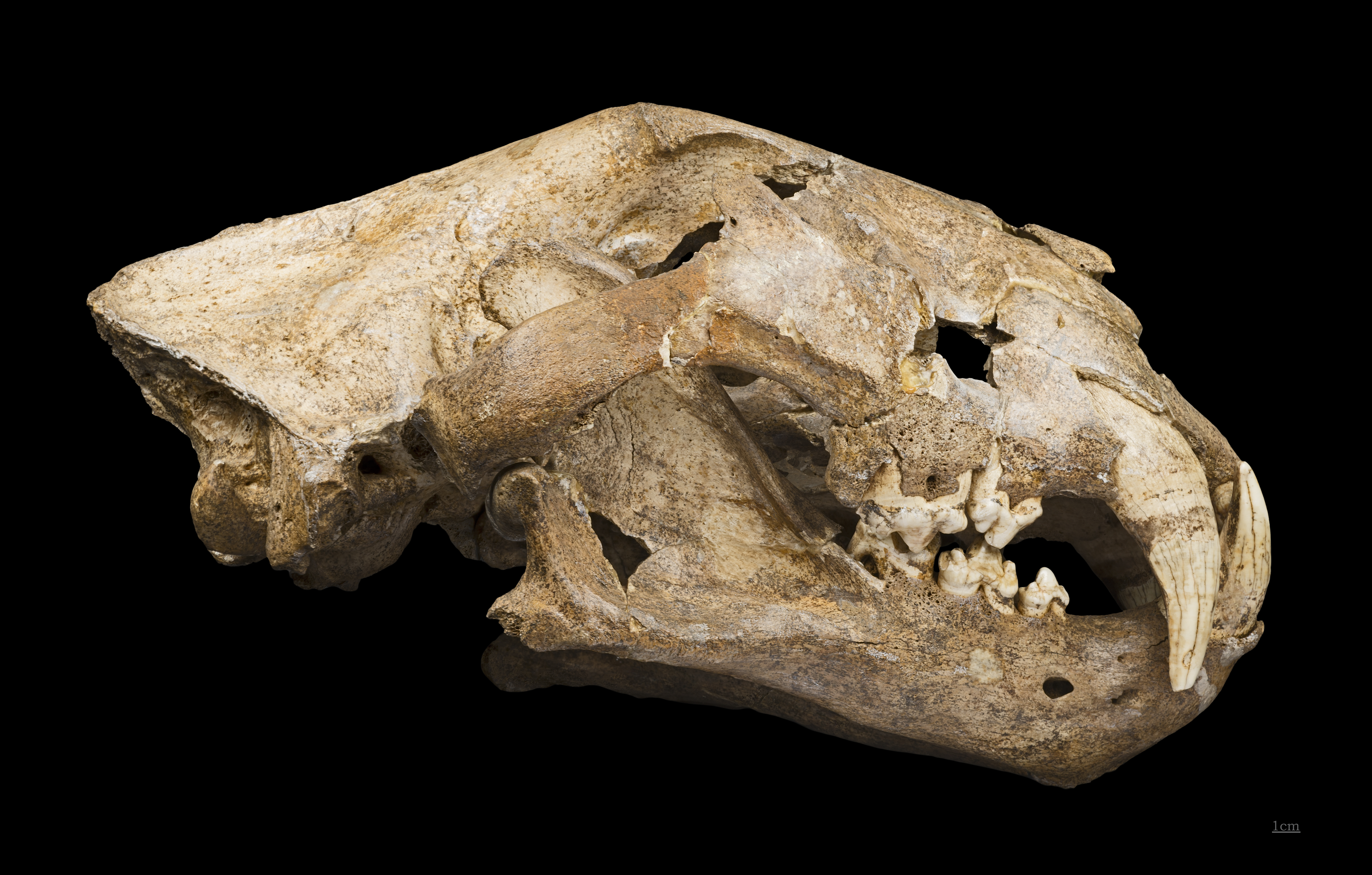 Skull of Panthera leo spelaea Stage : Pleistocene Locality : Montmaurin Haute-Garonne, France. Muséum of Toulouse MHNT.PAL.2009.0.1